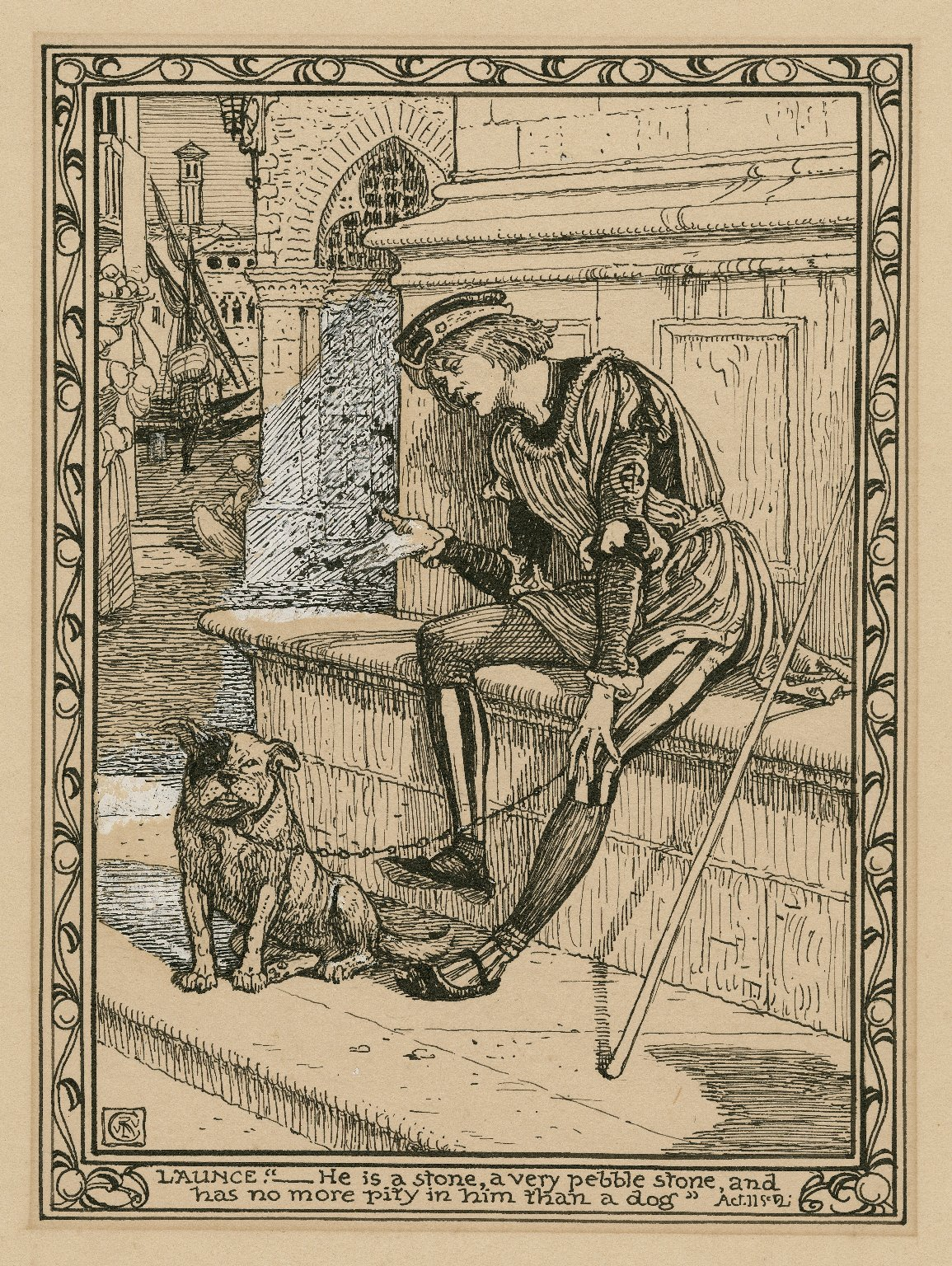 A late 19th century print of Act II, Scene ii. Launce: "...He is a stone, a very pebble stone and has no more pity in him than a dog".